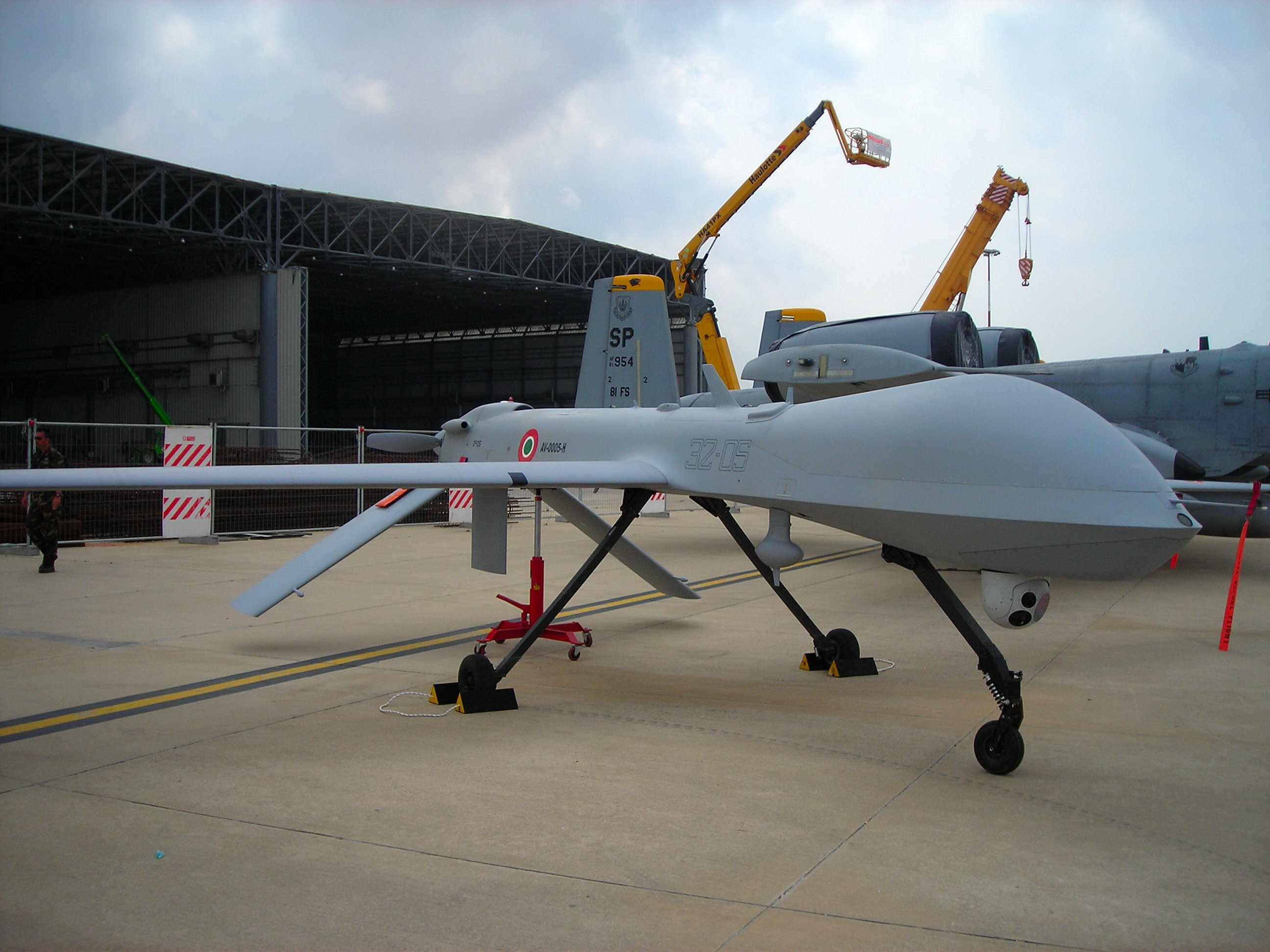 Picture taken during "Giornata Azzurra" 2007 (Italian Air Force airshow) at Pratica di Mare AFB, Italy. RQ-1 Predator of Italian Air Force, 32° Stormo (italian for "Wing")